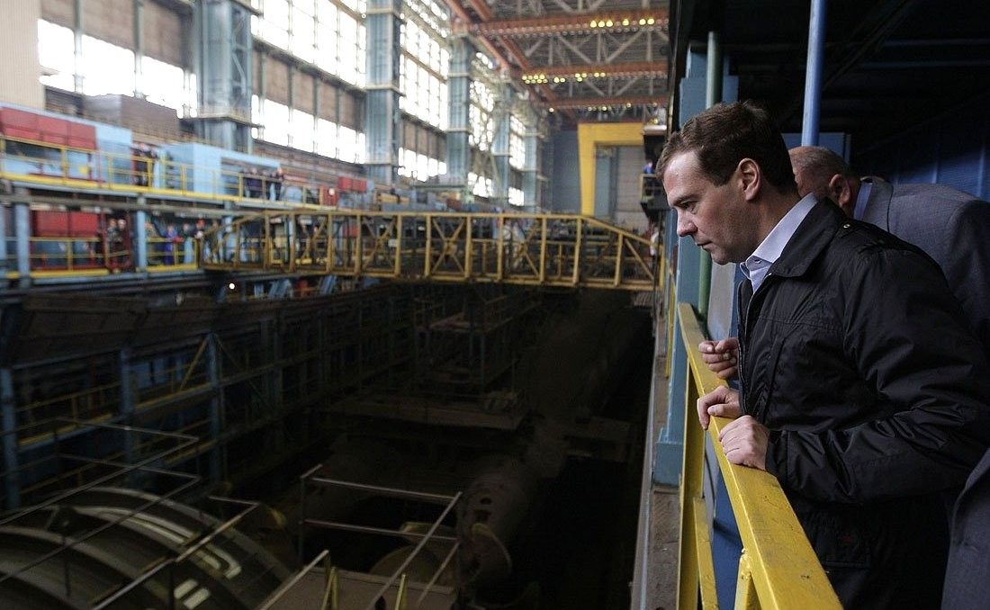 President Dmitry Medvedev inspecting Prirazlomnaya, an off-shore ice-resistant stationary platform currently under construction at Sevmash shipbuilding complex in Severodvinsk.